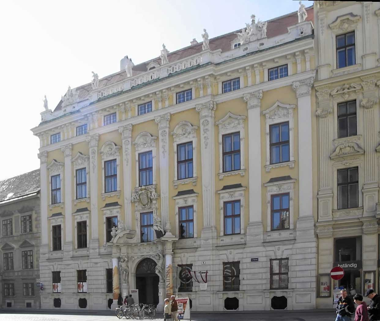 Palais Kinsky, Freyung, Vienna, 2005-10-16 selfmade photo